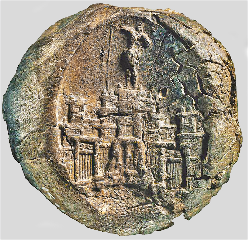 Several level building terra cotta seal at Kastelli.